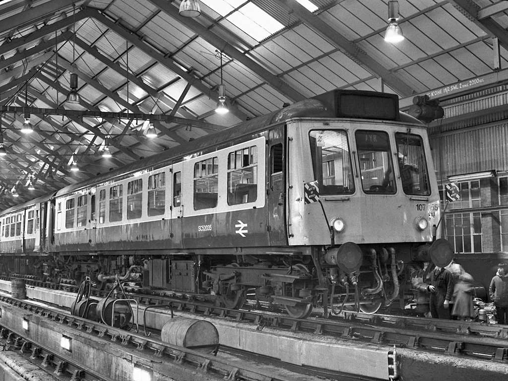 British Railways mixed three-car diesel-mechanical multiple unit formed of Derby Works class 107 driving motor composite lavatory number SC52035 and trailer second lavatory number SC59787 and Metropolitan-Cammell Railway Carriage & Wagon Company Limited class 101 driving motor brake second number SC51469 stands inside Ayr Traction Maintenance Depot during the Railfair open day. Sunday 30th October 1983